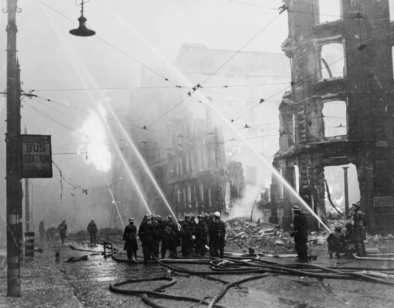 Air Raid Damage in Britain- Manchester Firemen directing hoses on burning buildings in the city of Manchester.